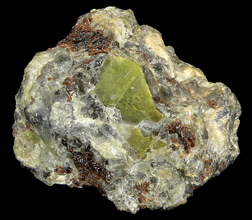 Chrysoberyl, Garnet Locality: Chrysoberyl locality, Haddam, Middlesex County, Connecticut, USA (Locality at ) Size: 9.0 x 7.8 x 6.4 cm. This piece is one of the few Chrysoberyls that I have seen from Haddam, Connecticut. It features a few sharp, distinct, somewhat lustrous, tabular yellow-green twinned crystals frozen against a matrix of deep red Garnet (probably Spessartine) and grey Smoky Quartz. The Chrysoberyl group, which measures 2.7 cm across, is contacted on one end, but the terminations are visible and complete, even though they are slightly pushed into the matrix. A fine specimen of this rarely seen material from Connecticut. Ex. Allen Heyl Collection.